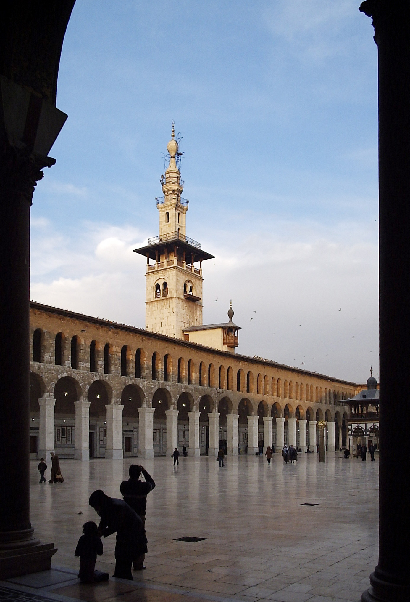 Umayyad Mosque in Damascus, Syria